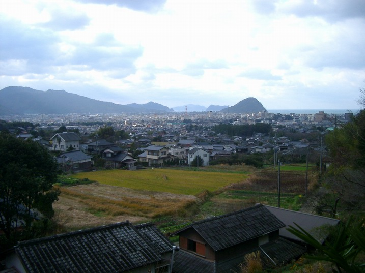 User:(WT-shared) Suhobei took this picture in Hagi in December 2006.